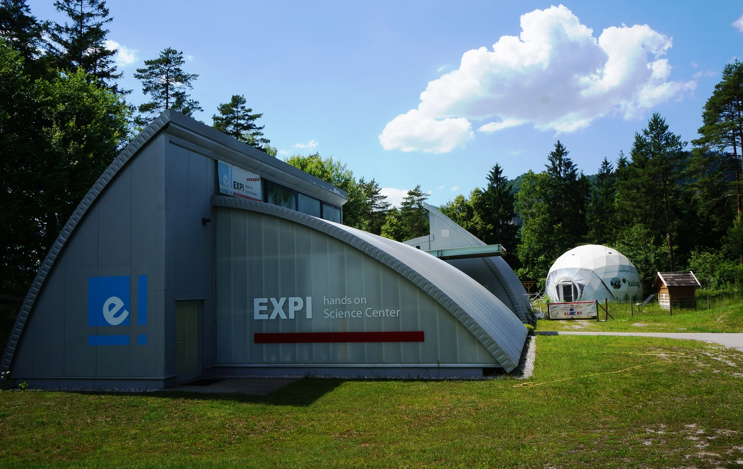 EXPI - house of Experiments, hands on Science center, Gotschuchen #34, Gemeinde Sankt Margareten im Rosental, Carinthia, Austria, European Union